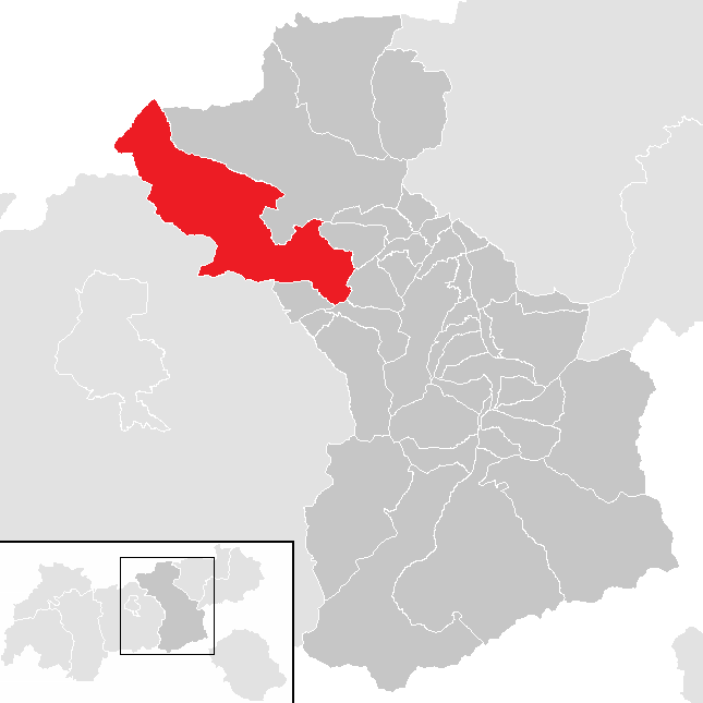 District Schwaz